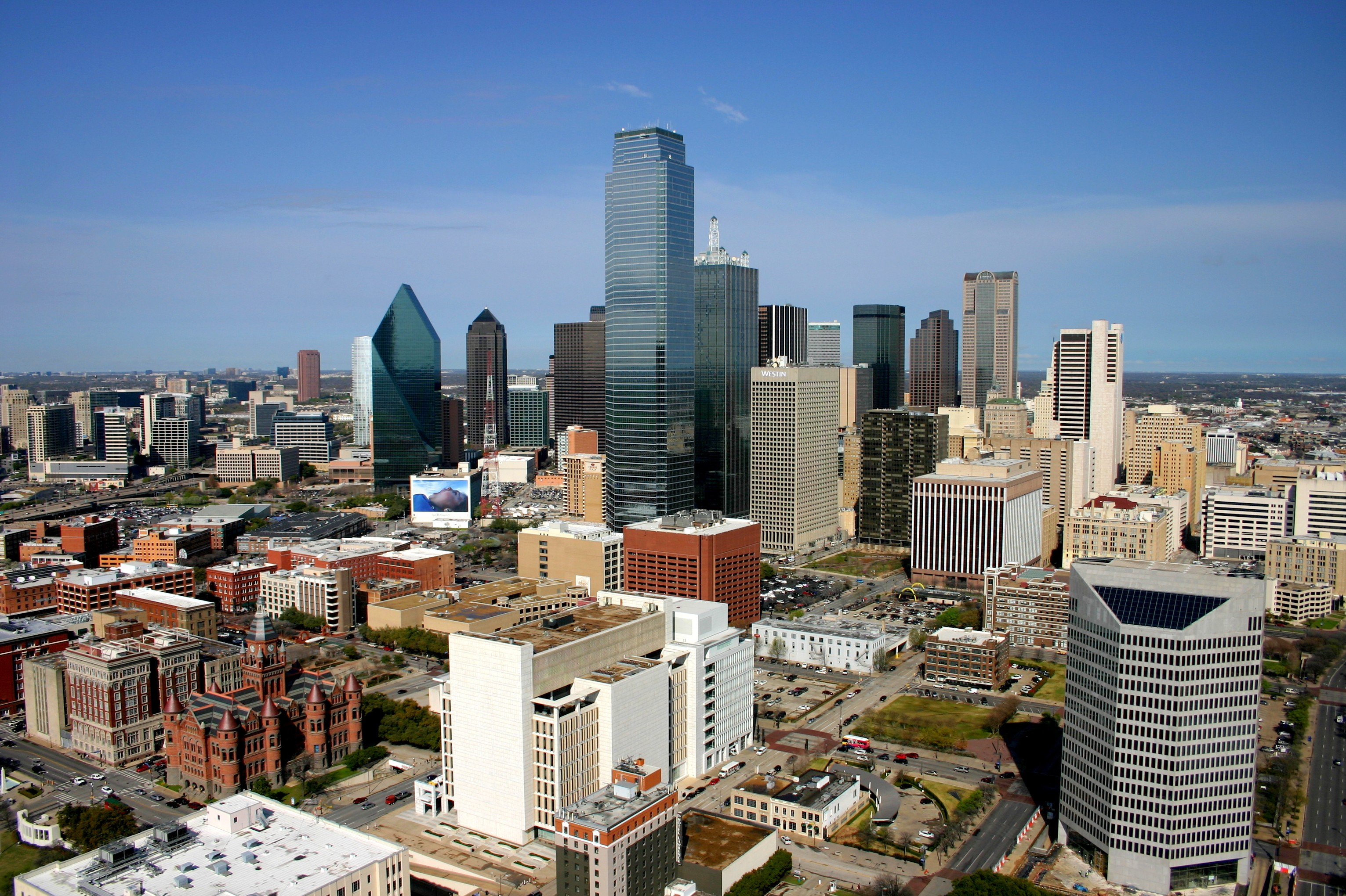 Dallas Downtown (Texas)